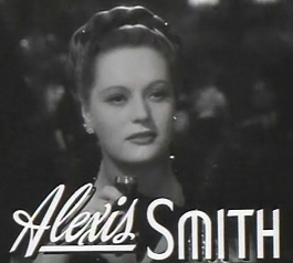 Cropped screenshot of Alexis Smith from the trailer for the film Rhapsody in Blue.